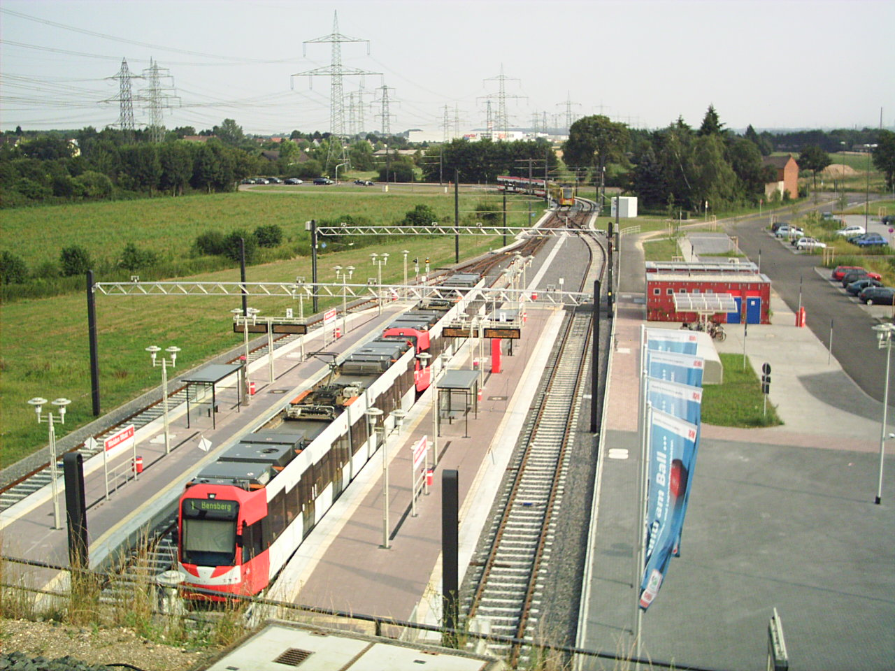 Weiden West Stadtbahn station, Cologne, Germany check usage